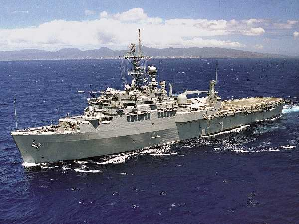 USS Coronado (AGF-11) underway at sea in the 1990s.